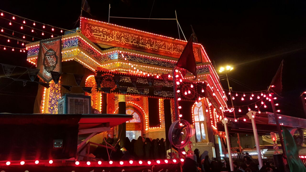 This place was a hill that Zaynab, sister of Husayn ibn Ali, saw events of Karbala in the day of Ashura.